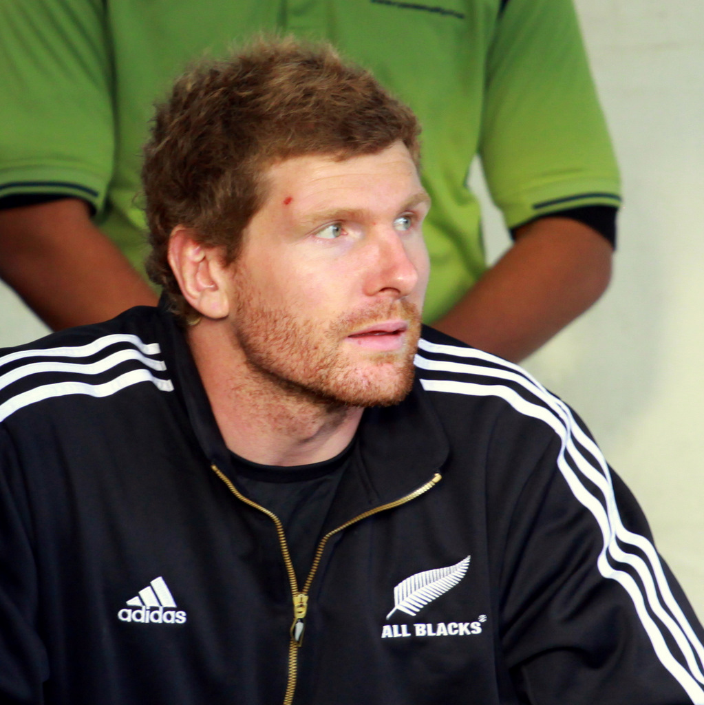 New Zealand rugby union player Adam Thomson and the rest of the All Blacks visit Christchurch during the Rugby World Cup.